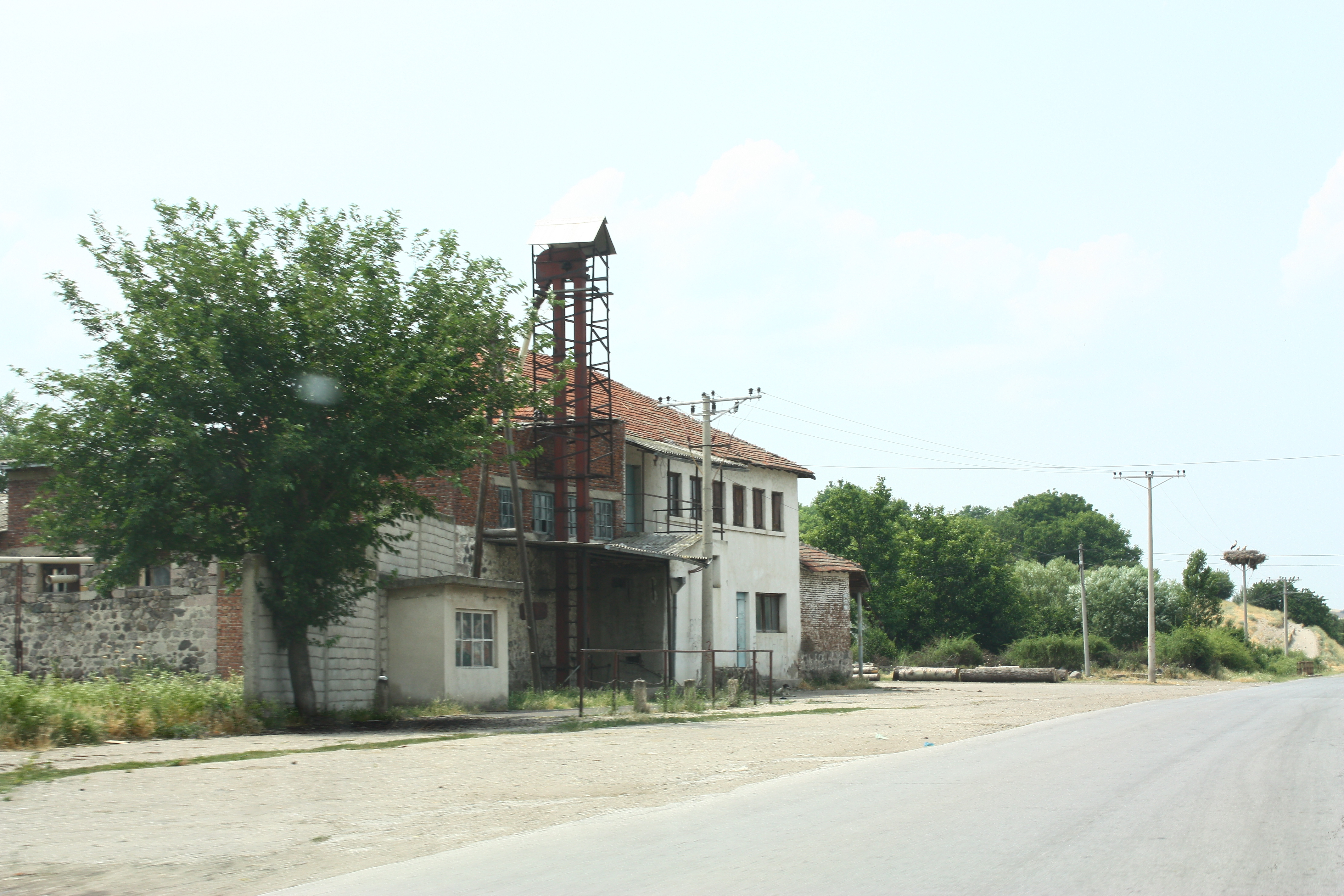 Pišica, Macеdonia.